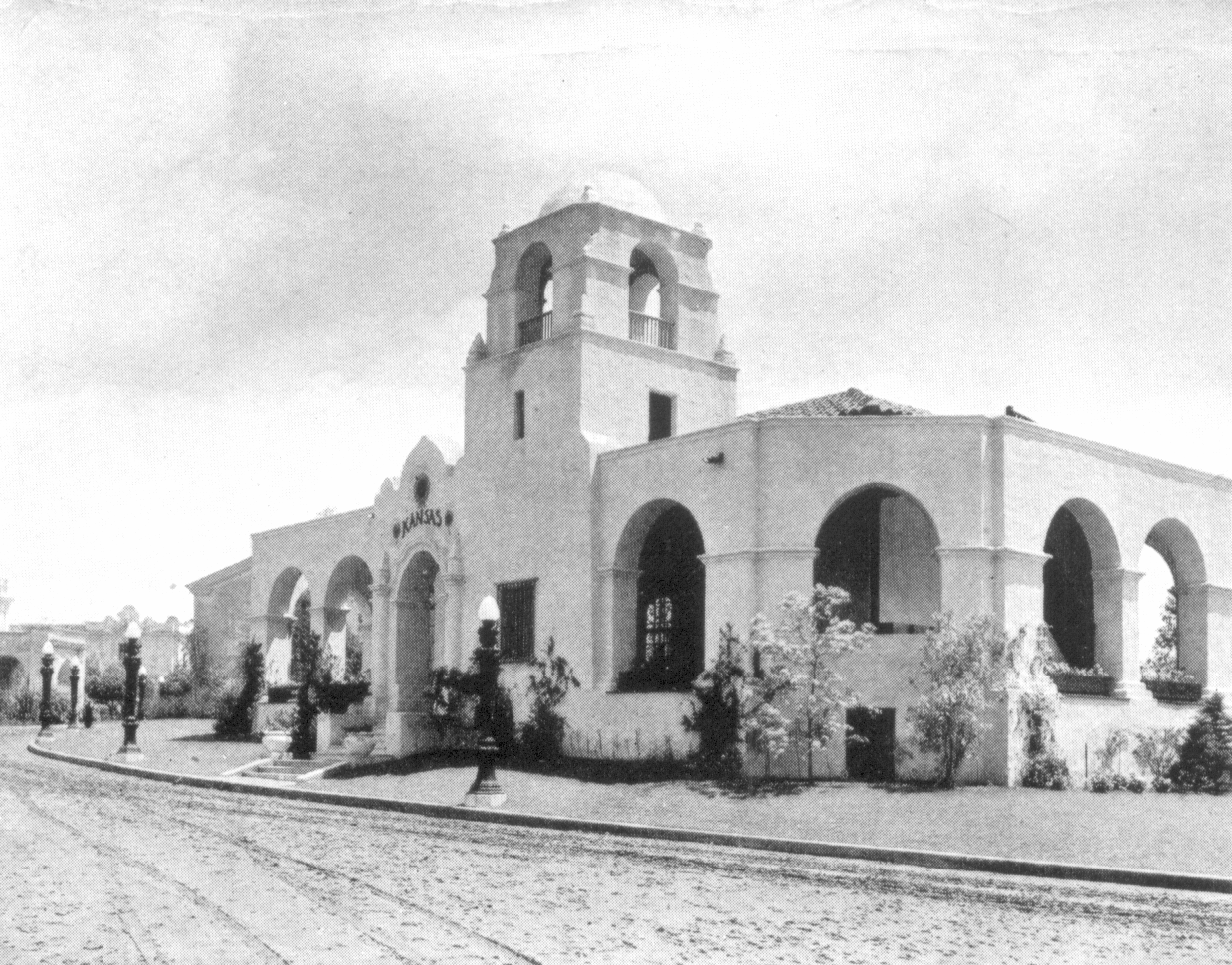 The Theosophical Headquarters, formerly Kansas Building. The Theosophical Building is the only in the Exposition completely in the so-called Mission Revival Style architecture and forms, therefore, a significant step in the Fair's architectural sequence. Along the front and at the southerly side of a simple exposition room roofed with Mission tile, runs a verandahor arcade with a typical Mission tower at the right side of the axis or entrance. The south portion of the verandah is roofed with open beams only, and near it a stairway gives access to the roof terrace above and to the tower. Carleton Monroe Winslow was the architect of the building.